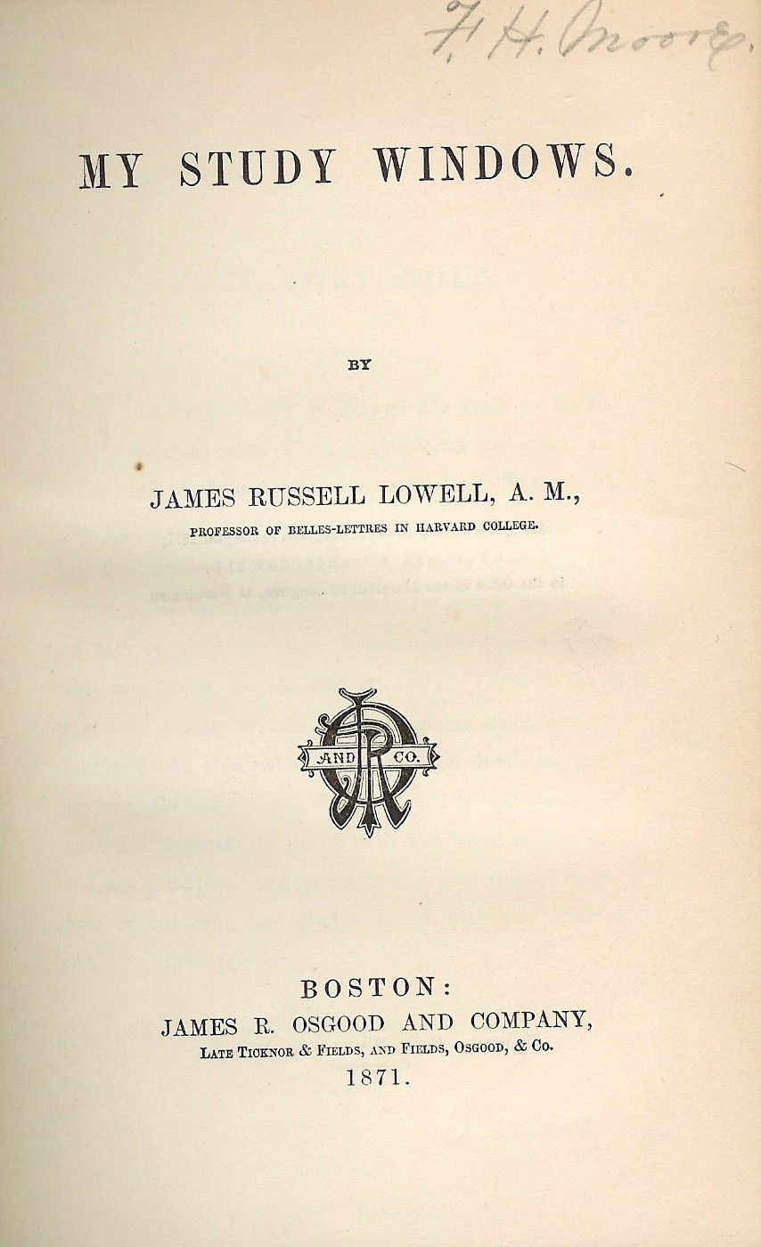 Title page of My Study Windows by James Russell Lowell. Printed in Boston in 1871 by James R. Osgood and Company.